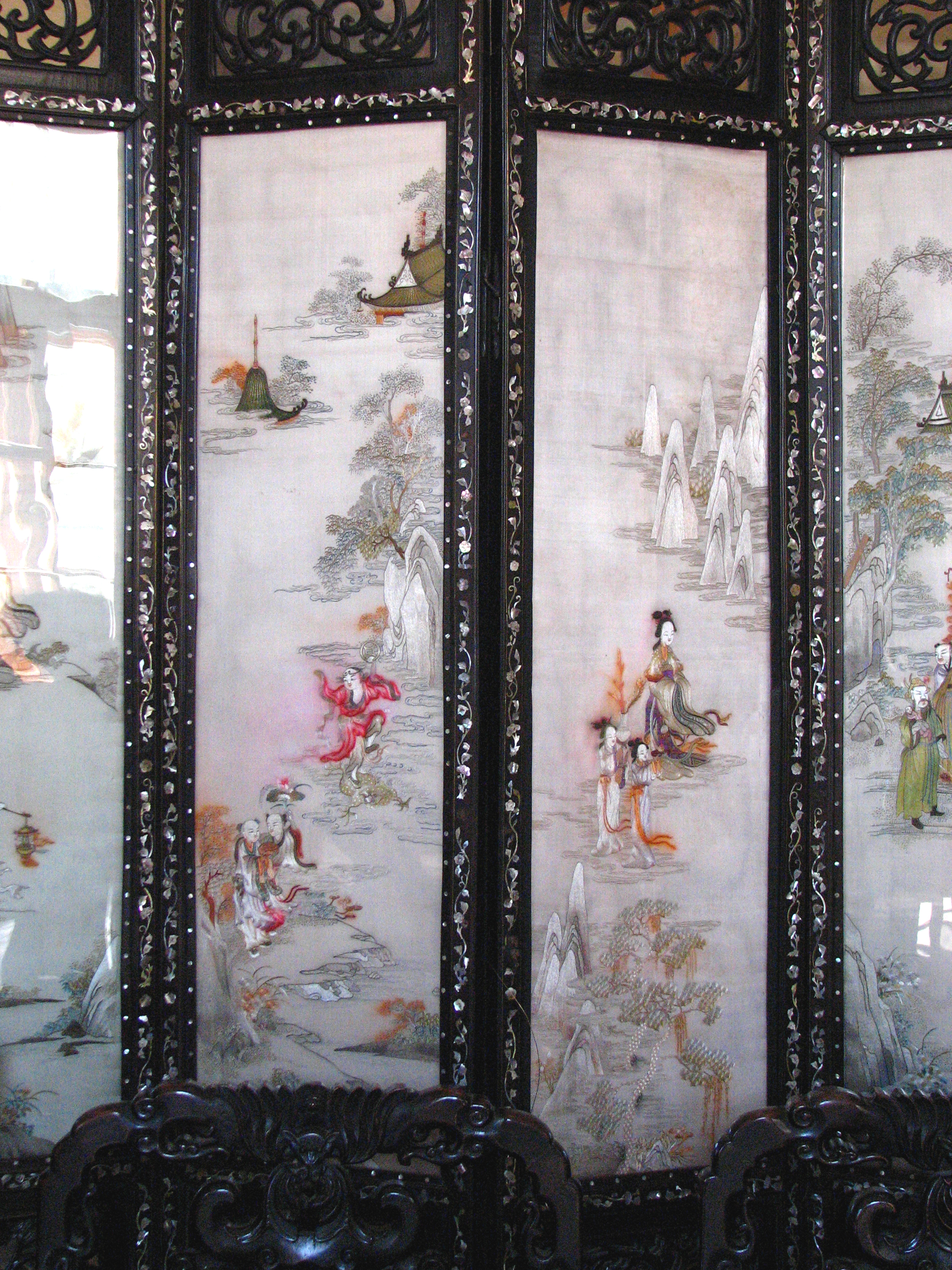 Saint Petersburg. Kunstkamera. Hall of China. Folding screen (the end of XIX century). 12 shutters of a screen are made of an ebony; furnish by incrustation. Silk panels — an embroidery on plots of the classical Chinese literature.